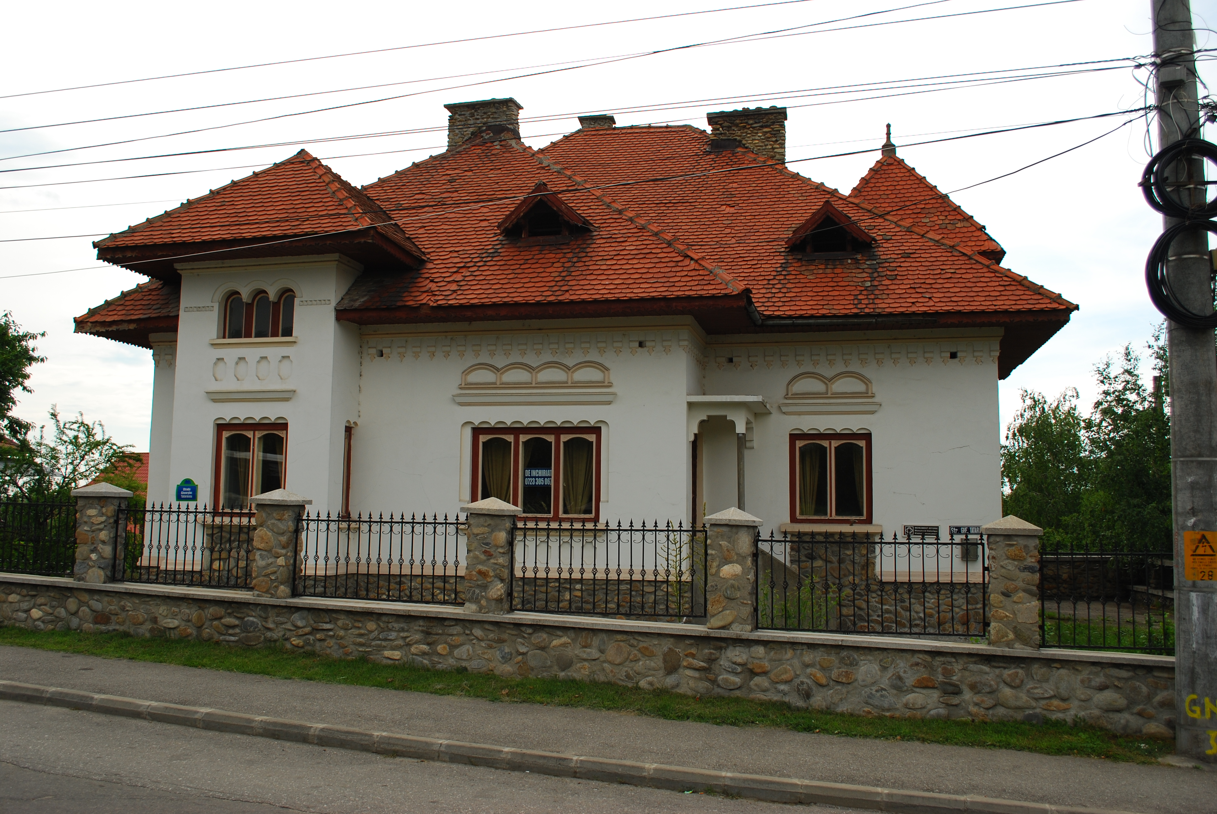 Historical building in Târgu Jiu, Romania, Eroilor street 92